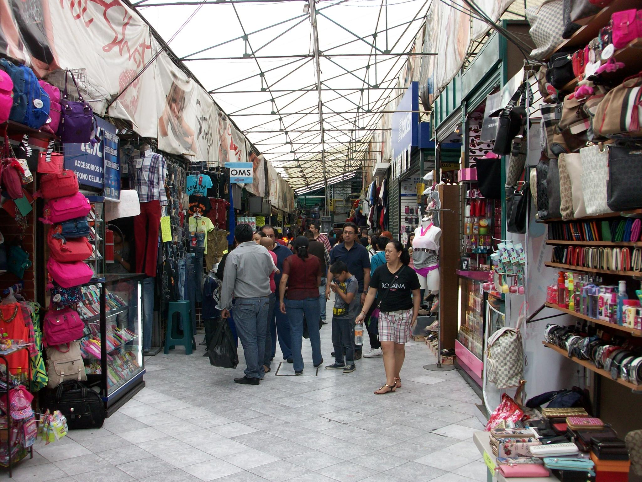 Pasillo central del Bazar Pericoapa.